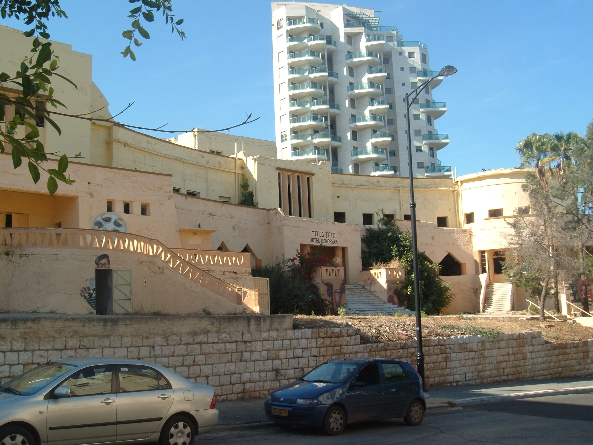 Hotel Ginosar historical site in tiberias, Israel.